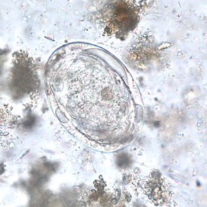 Egg of S. japonicum in unstained wet mounts.